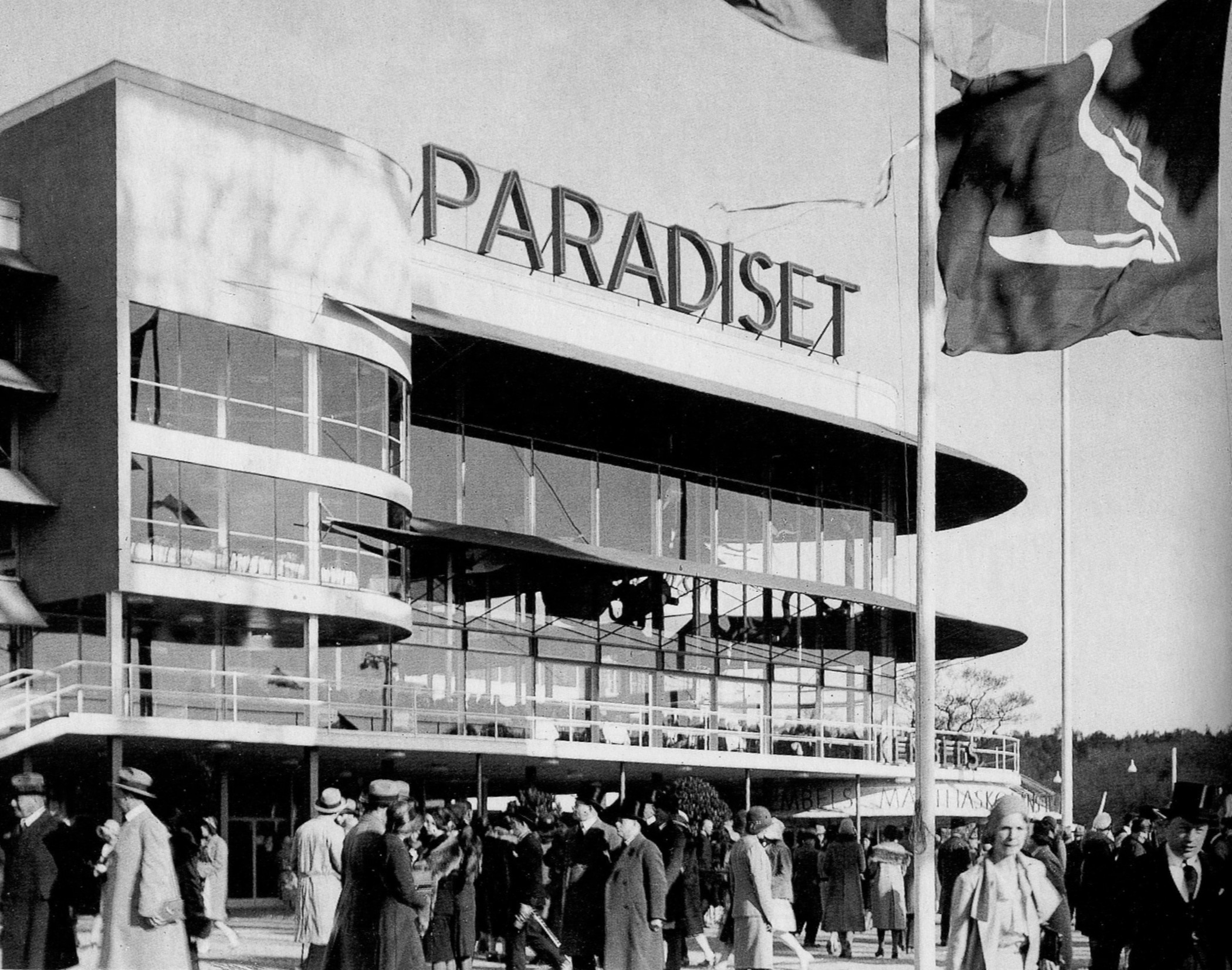 The Stockholm Exhibition (in Swedish, Stockholmsutställningen) was an exhibition held in 1930 in Stockholm, Sweden, that had a great impact on the architectural styles known as Functionalism and International Style.